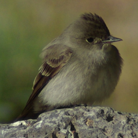 Western Wood-Pewee, Contopus sordidulus, near the Rio Grande just above Pilar, New Mexico.